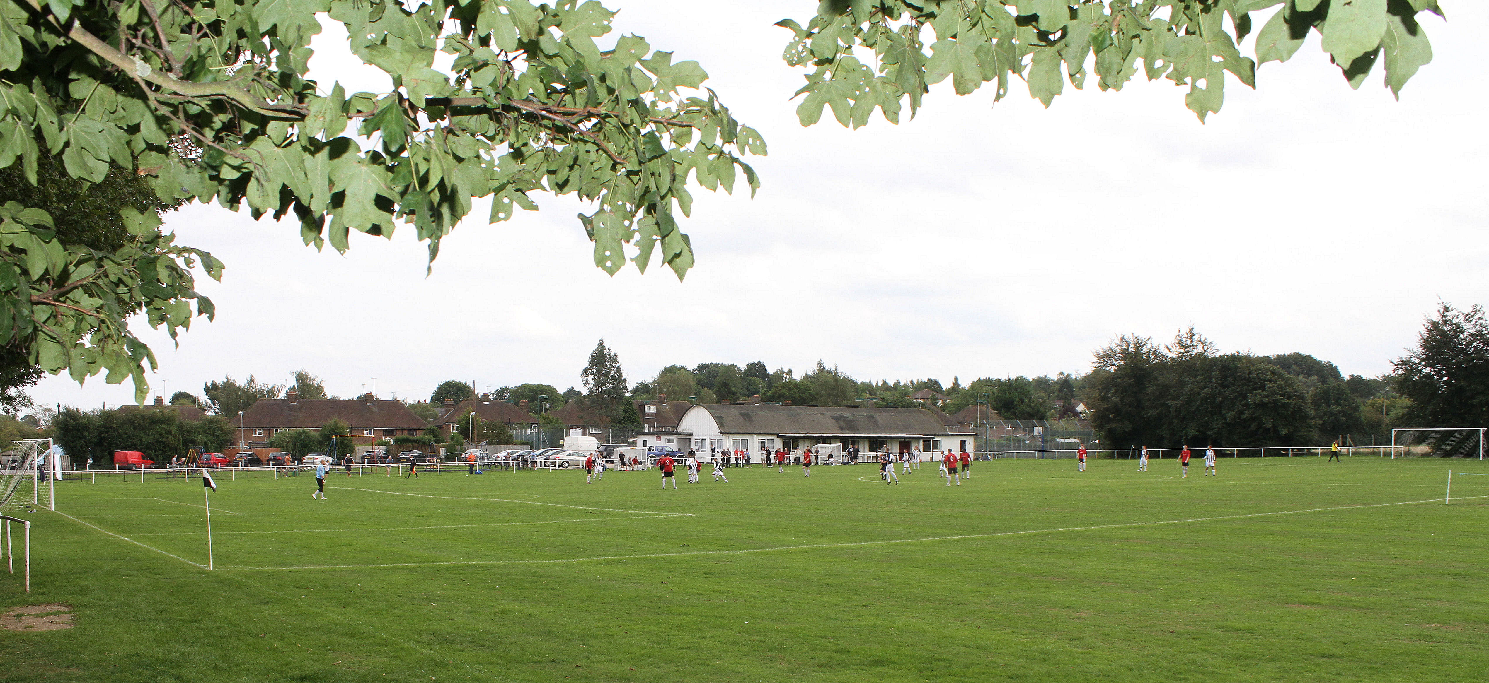 Spencer Playing Fields home of Sandridge Rovers Football Club